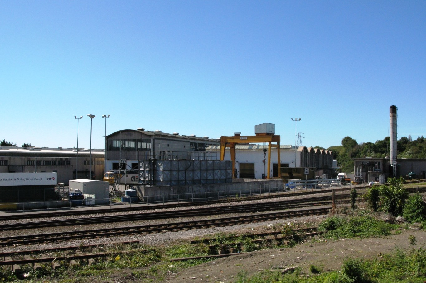 Laira Traction Maintenance Depot, Plymouth, Devon, England, seen froma a passing train.